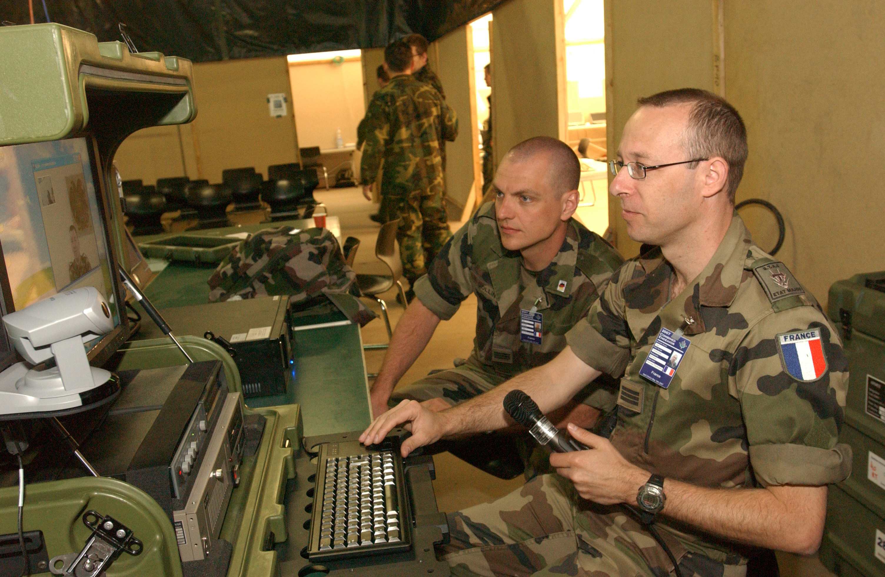 French Capts. Christophe Michelet and Yannick Collin recieves audio and visual comfirmation from their regional group in France during exercise Combined Endeavor 2007 at Lager Aulenbach, Baumholder, Germany, April 27, 2007. The exercise is the largest se curity cooperation and communications and information systems military exercise in the world, with participation from more than 1,200 military and civilian personnel from 42 countries and two multi-national organizations. (U.S. Air Force photo by Senior Airman Dayton Mitchell) (Released) (Released to Public)